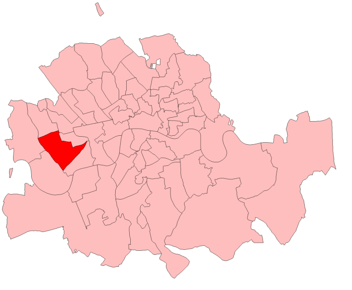 A map of Kensington South constituency within the Metropolitan Board of Works area, as it existed from 1885 to 1918.